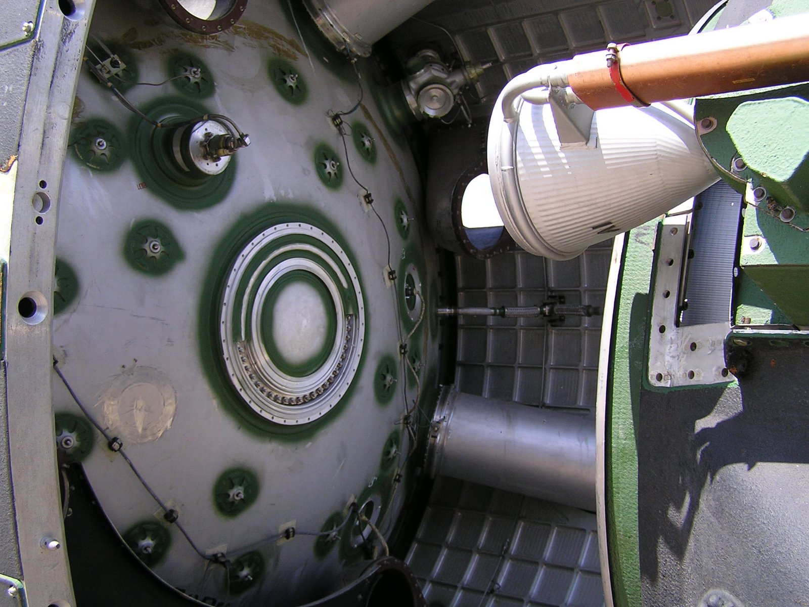 R-36M missile at the Strategic Missile Forces Museum in Ukraine.